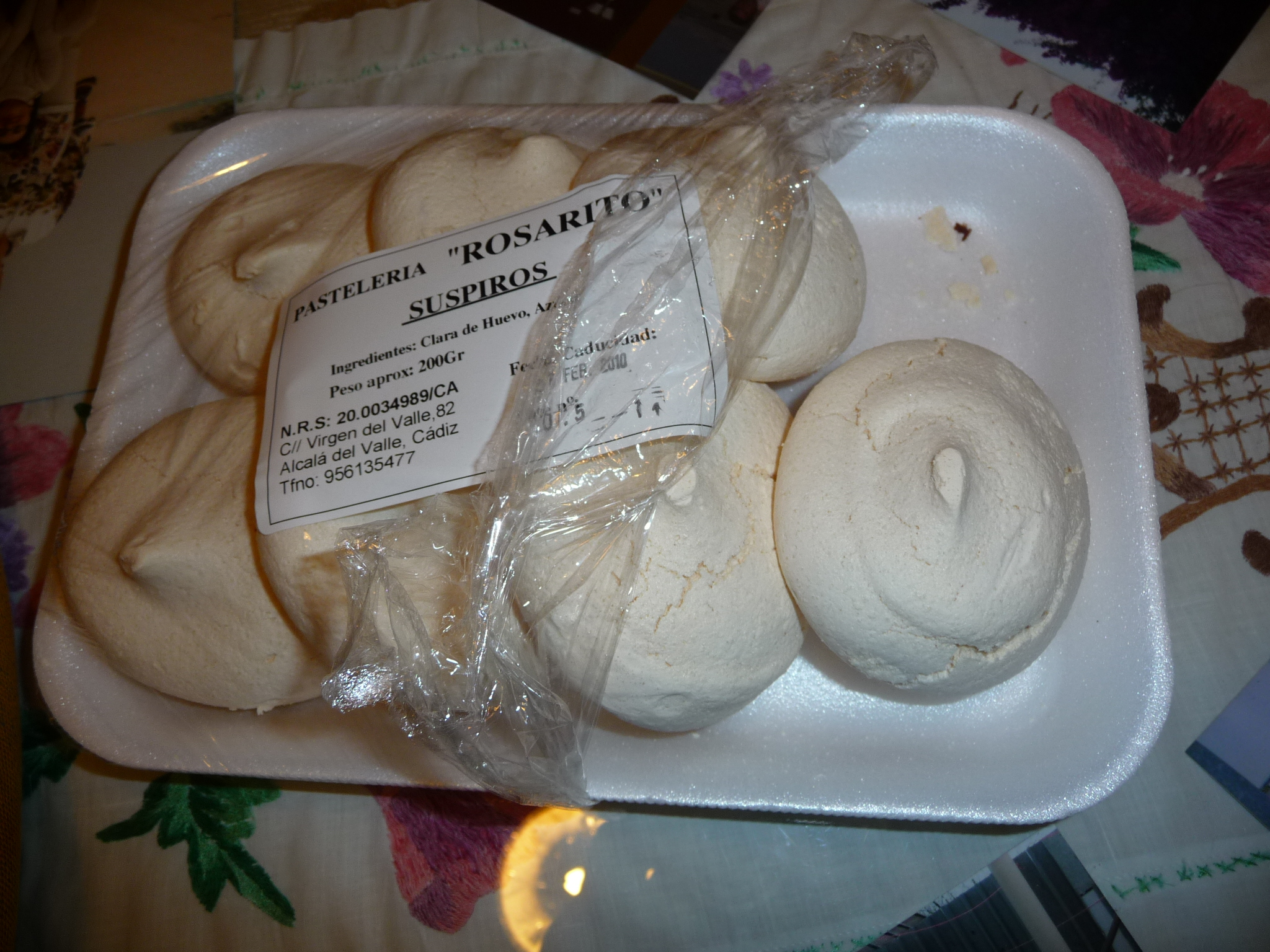 Suspiros, traditional pastry from Andalusia (Spain)